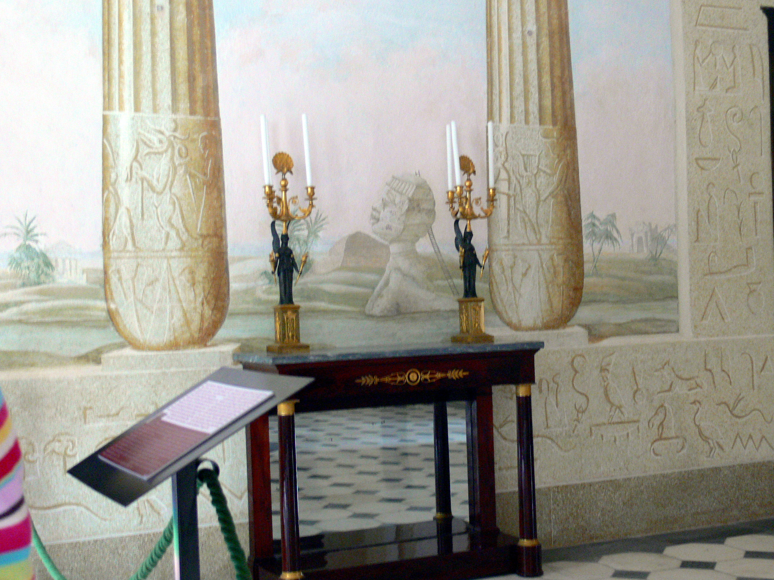 San Martino on Elba. Napoleon´s summer villa: Egyptian hall painted by Pietro Ravelli.